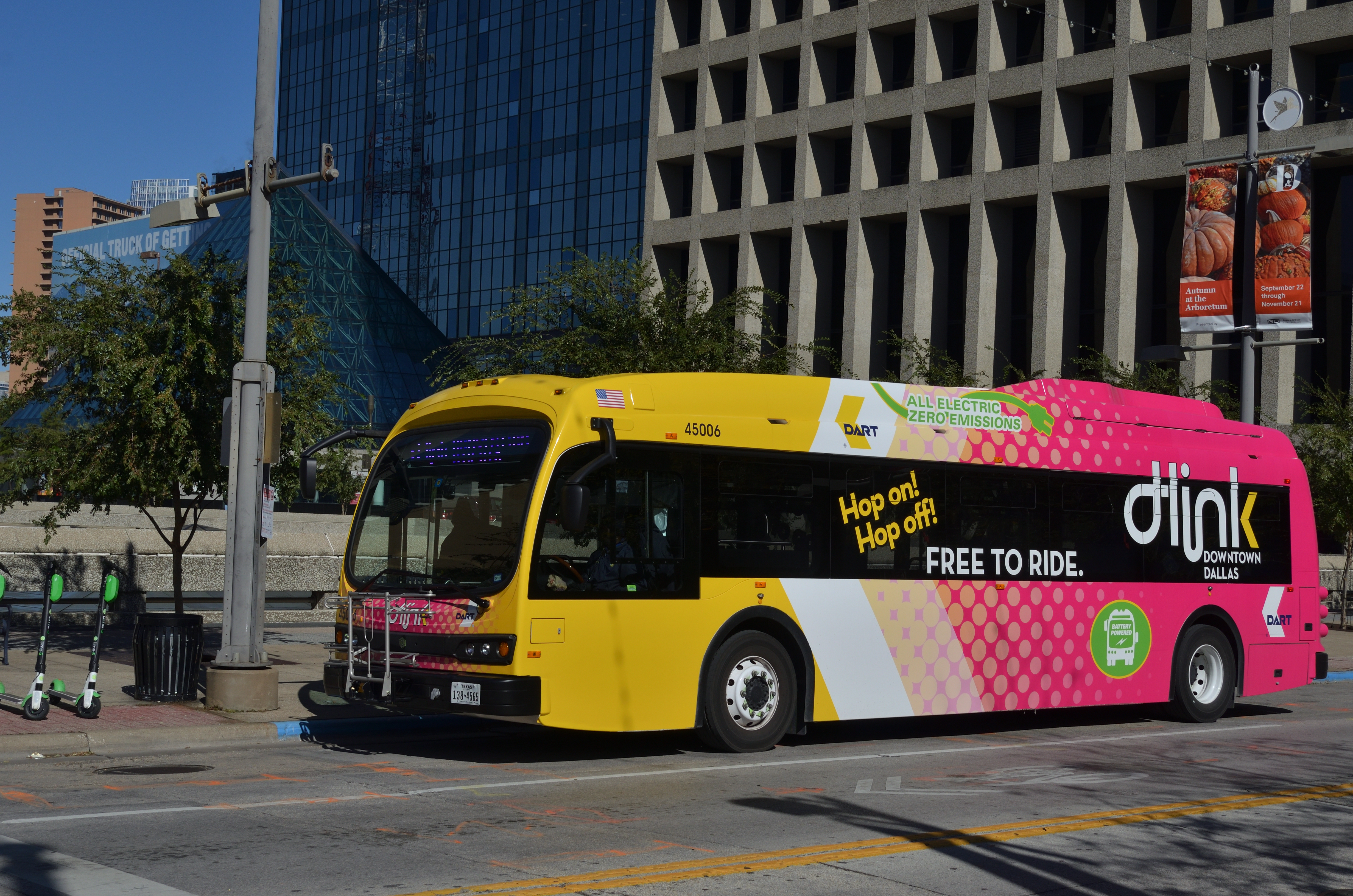 DART Electrically-powered bus - DART D-LINK (ROUTE 722)